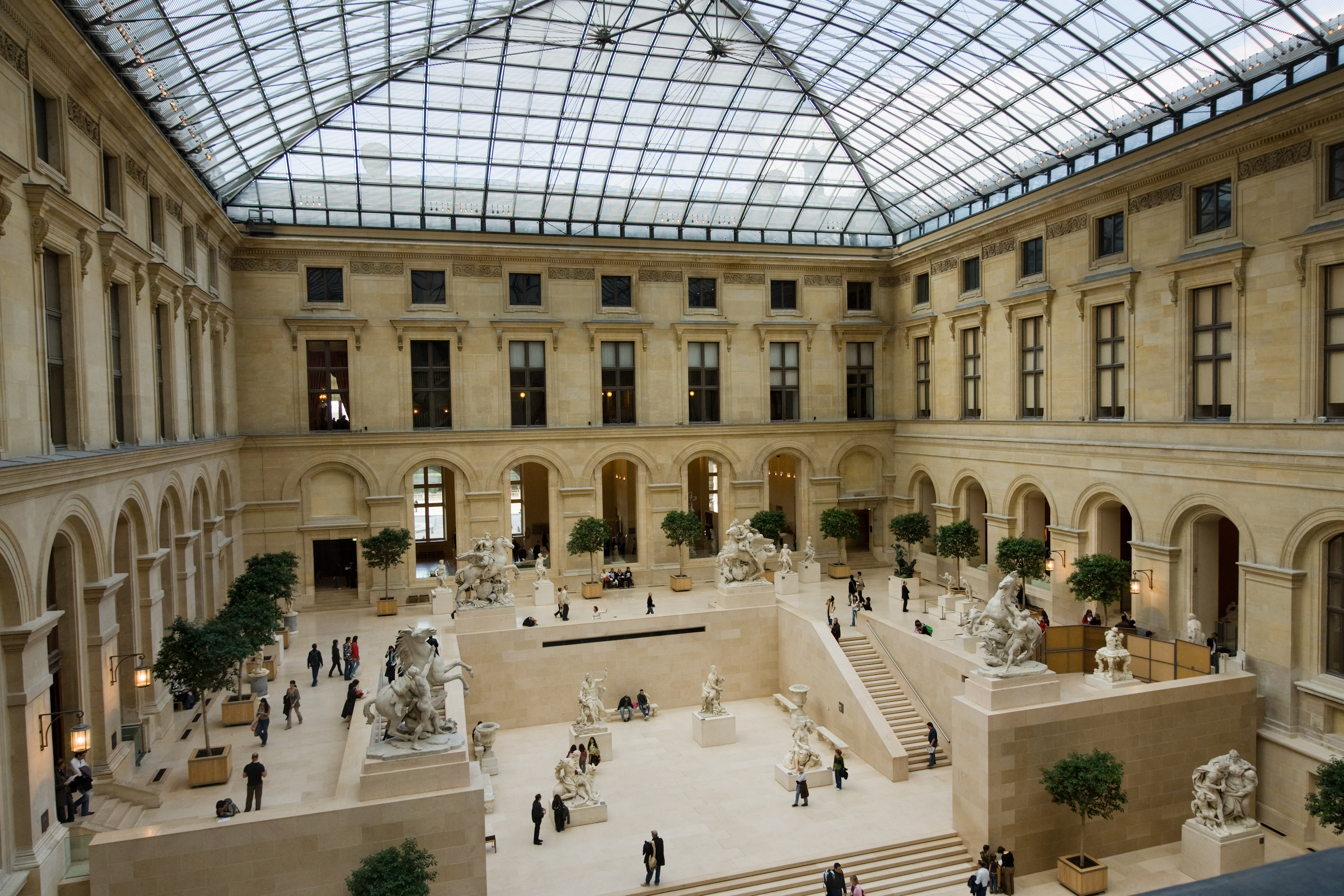 View toward the west of the Cour Marly in the Richelieu wing of the Louvre